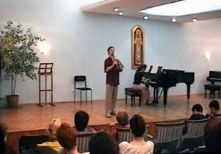 Great Concert Hall of the Music School "Kosta Manojlovic" - Zemun, author Radivoj Lazić, own work, 4. 4. 2007.